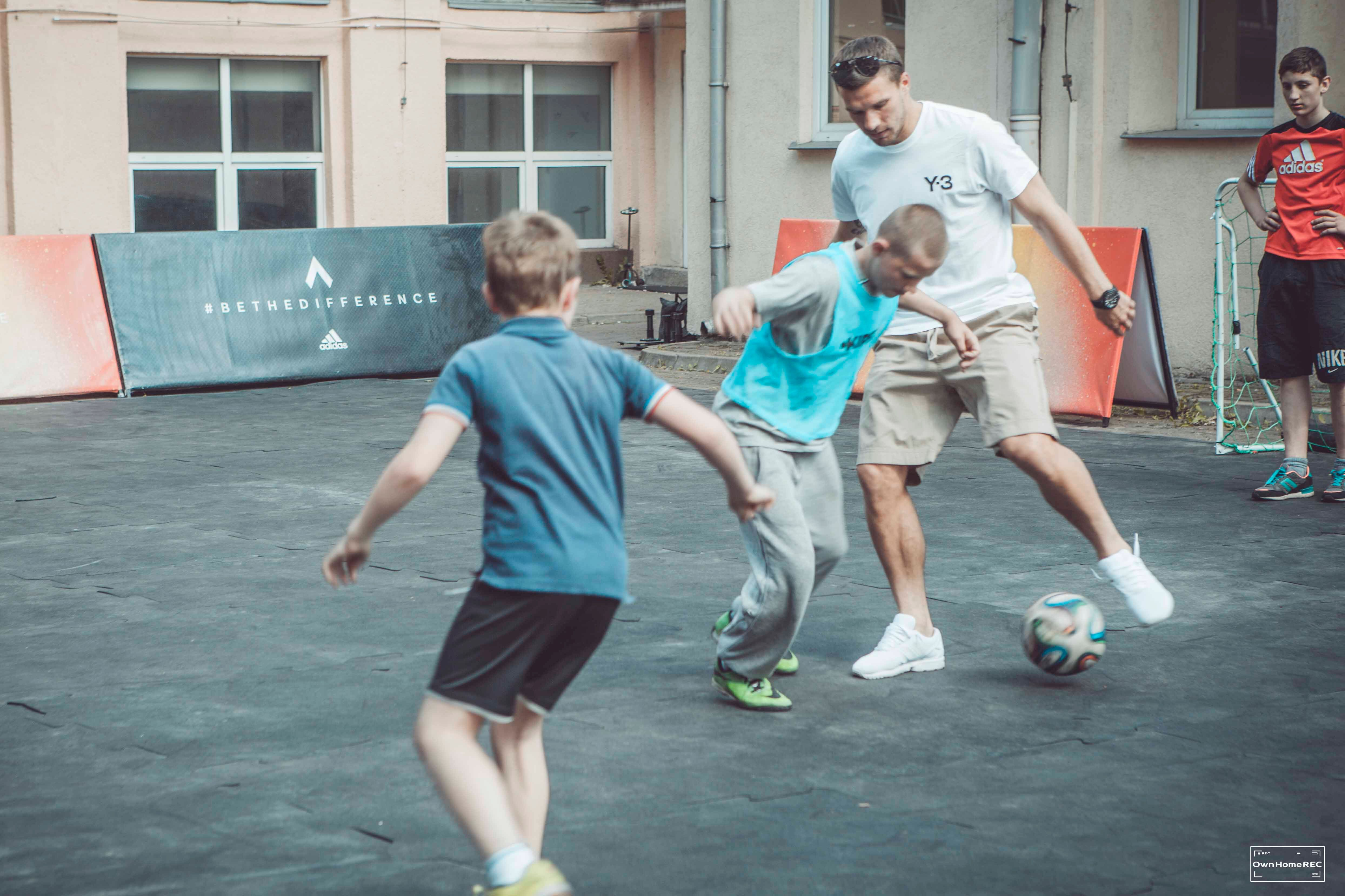 Lukas Podolski playing football with children from Arka Fundacja Dzieci in Warsaw